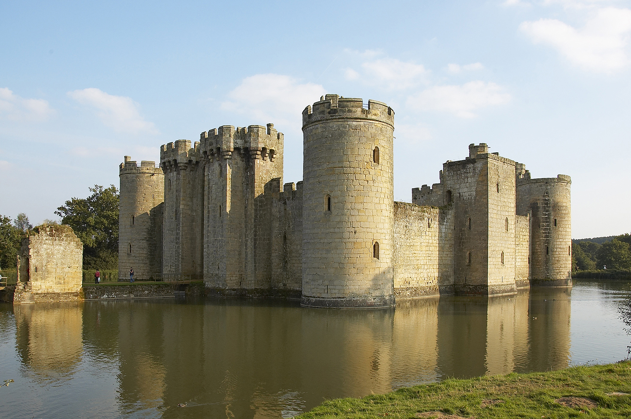 Bodiam Castle in Sussex UK